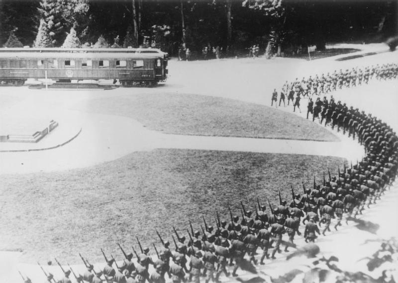 The Fall of France 1940 The historic railway carriage at Compiegne where Petain's Government signed Armistice Terms in June 1940. A German guard of honour are seen marching round the carriage.